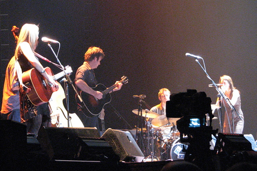 The Waifs performing in Perth, Australia on May 22, 2007.